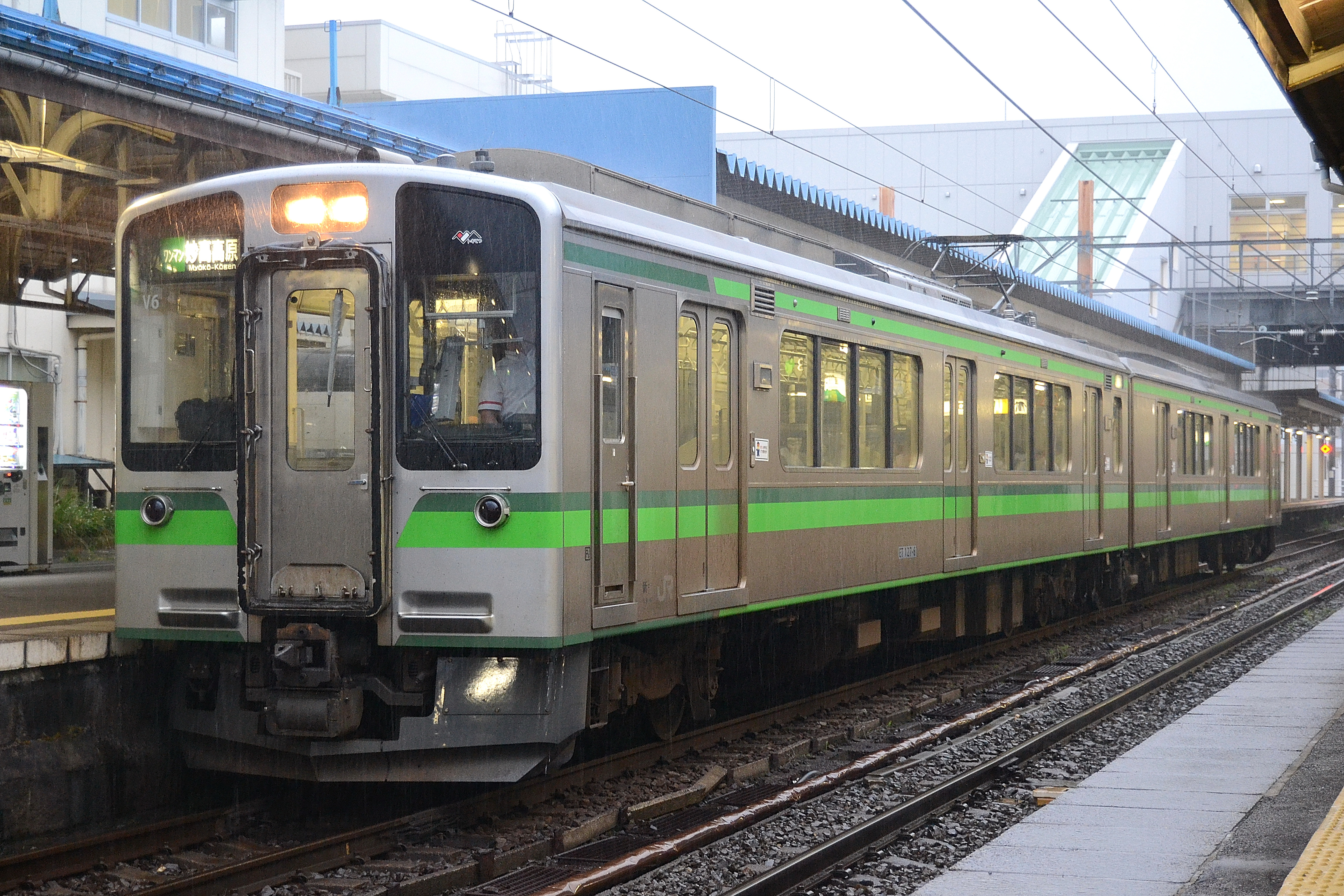 Echigo Tokimeki Railway ET127 series EMU set V6 still in JR East livery at Naoetsu Station on a Myoko Haneuma Line service